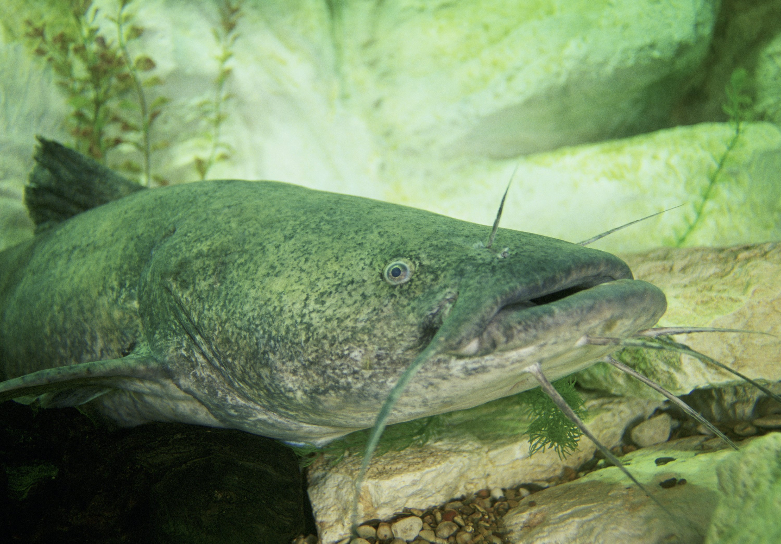 Crop of file in filename